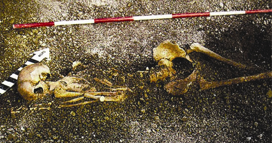 A human victim of the Avellino eruption (ca. 3800 BP) found buried in a self protecting position typical of death due to suffocation.